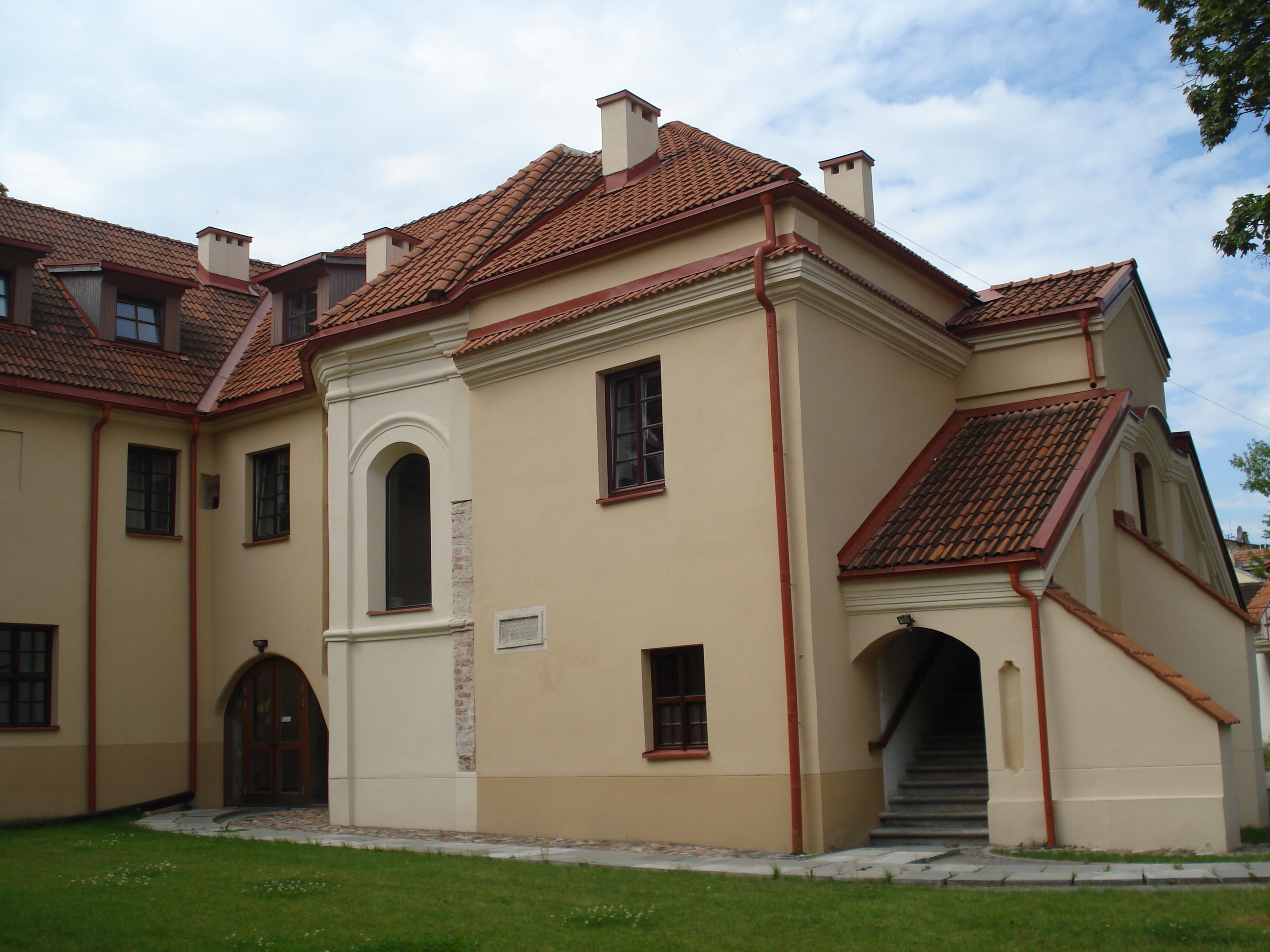 The Monastery of Bonifratri in Vilnius